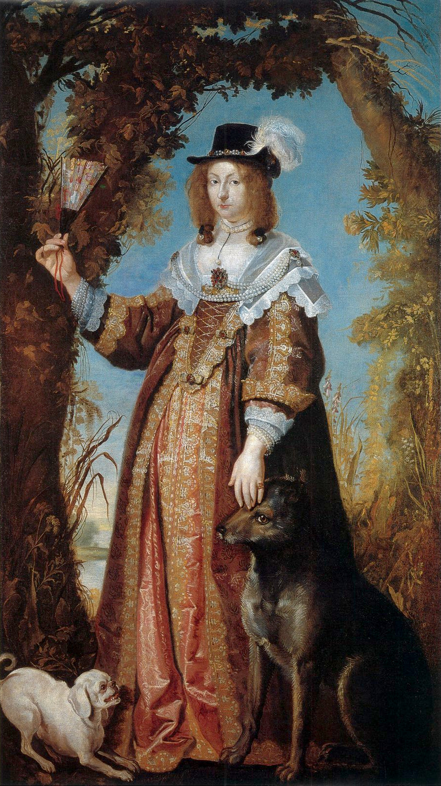 Leonora Christina, 8.7.1621-16.3.1698, Countess of Schleswig and Holstein, author, daughter of King Christian 4 and Kirsten Munk.